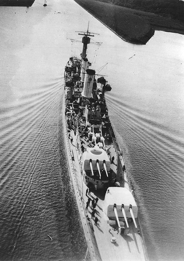 German Light Cruiser Köln (Note the offset arrangement of her after two triple 150mm gun turrets, and experimental two twin-barrel 88 mm C/25 AA-guns behind an upper stern turret.